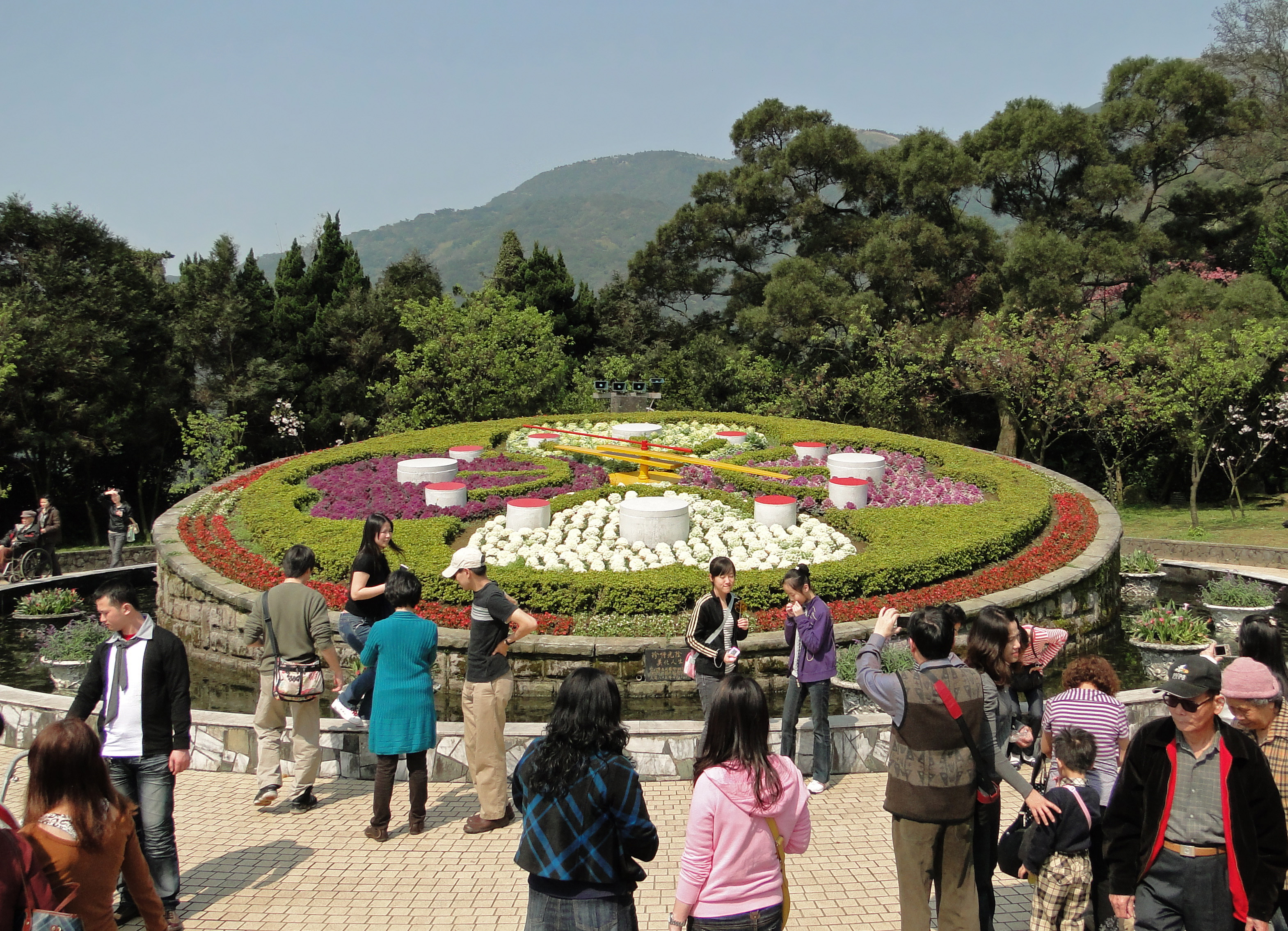 The flower clock in Yangming Park, Yangmingshan National Park, Taipei, Taiwan